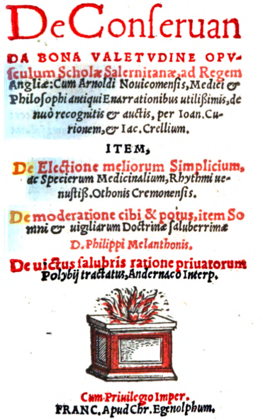 De conservanda bona valetudine (1554) by Arnaldus de Villanova